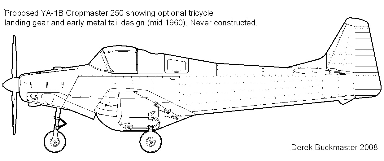 Side view of the proposed YA-1B Cropmaster aircraft. This featured a new tricycle undercarriage and an early version of the all-metal empennage. This version was never produced.